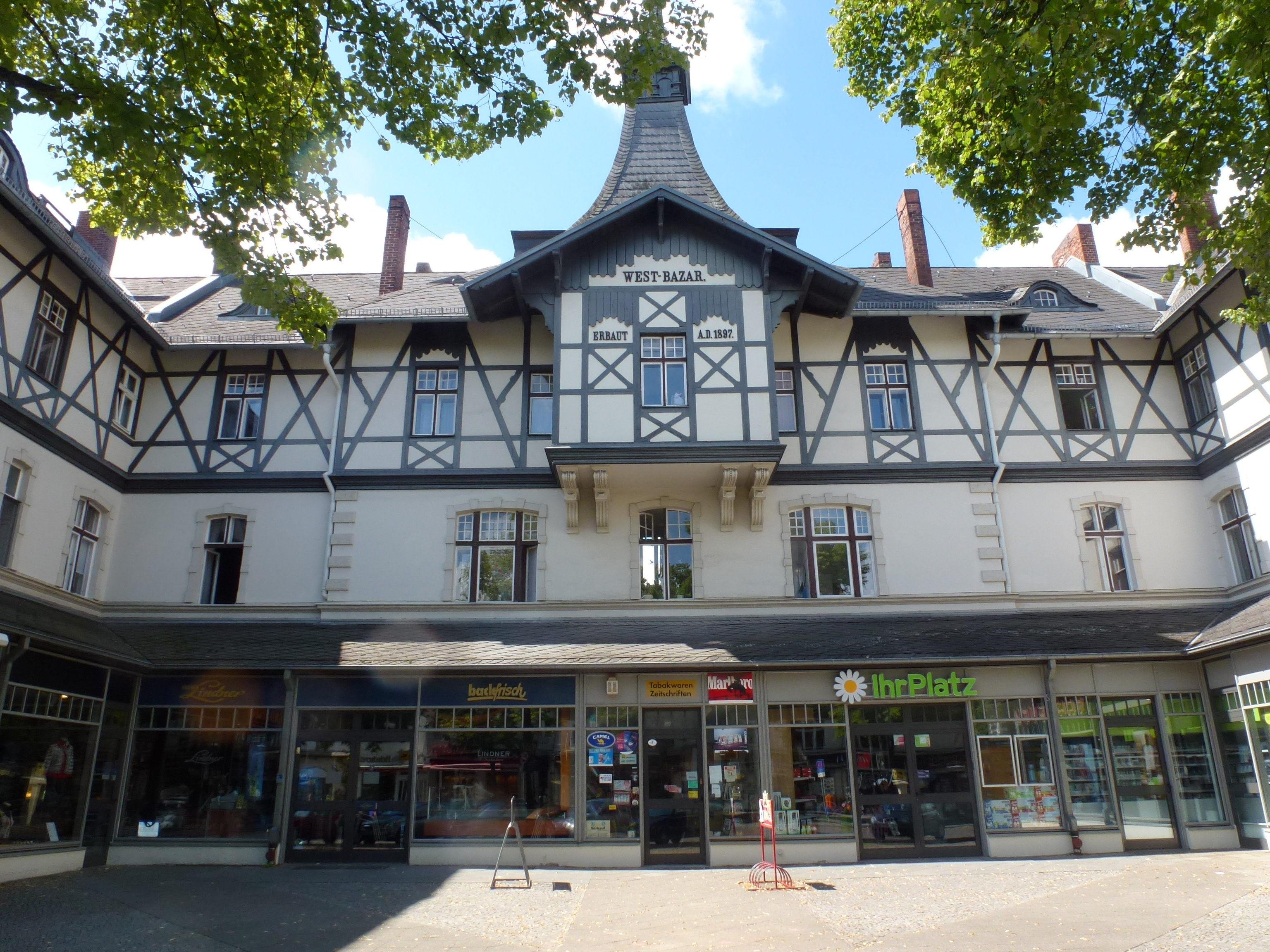 Berlin-Lichterfelde Baseler Straße 2-4 West-Bazar